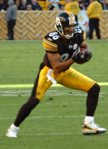 Hines Ward of the Pittsbrgh Steelers during an NFL game in 2006 against the Chiefs.